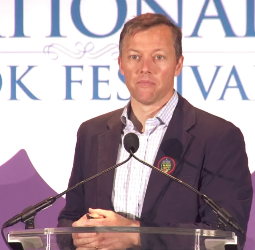 Matthew Desmond discusses Evicted: Poverty and Profit in the American City at the 2017 Library of Congress National Book Festival in Washington, D.C. Speaker Biography: Matthew Desmond is the John L. Loeb associate professor of the social sciences at Harvard University. His research focuses on urban sociology, race and ethnicity, poverty, social theory, organizations and work, and ethnography. Desmond was awarded a MacArthur grant in 2015 for his work on poverty. He is the author of four books, including the award-winning "On the Fireline." His most recent book, "Evicted: Poverty and Profit in the American City" is the winner of the 2017 Pulitzer Prize for general nonfiction.